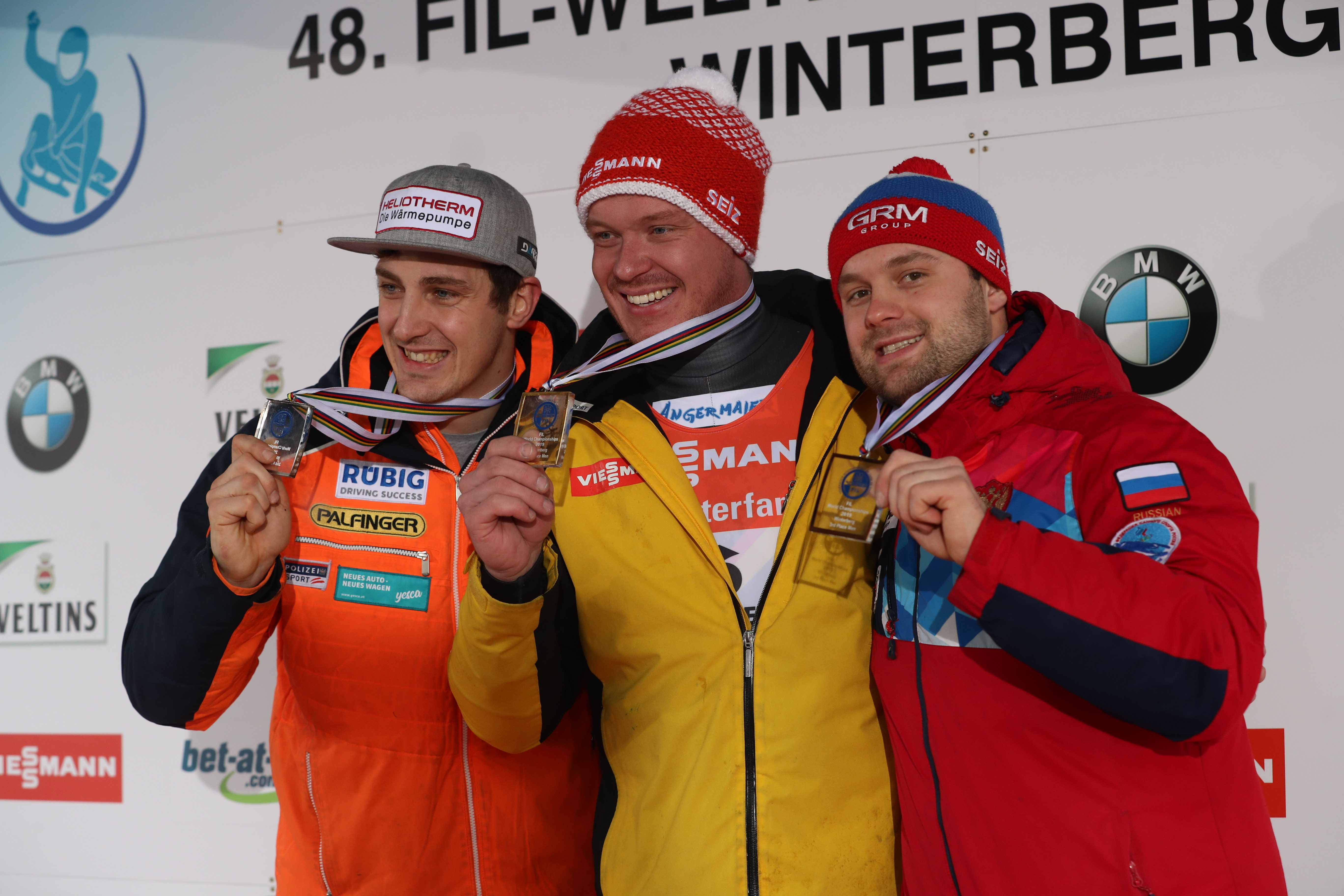 Victory ceremony for the Men's and Team Relay race at the FIL World Luge Championships 2019 in Winterberg